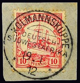 Stamps for German South West Africa postmarked Kolmannskuppe 1912